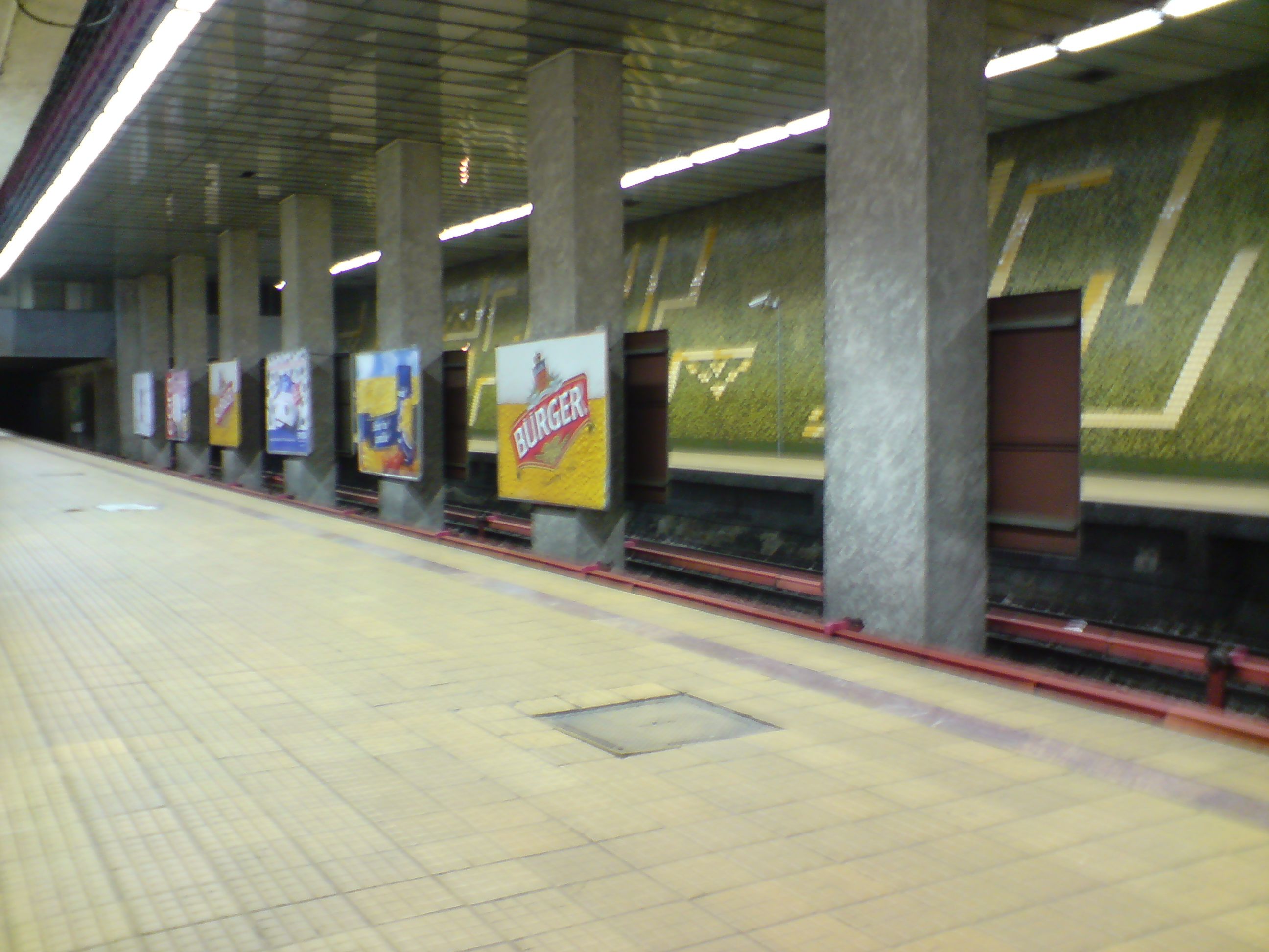 Platform at Grozavesti station, taken by me on 12th April 2008.